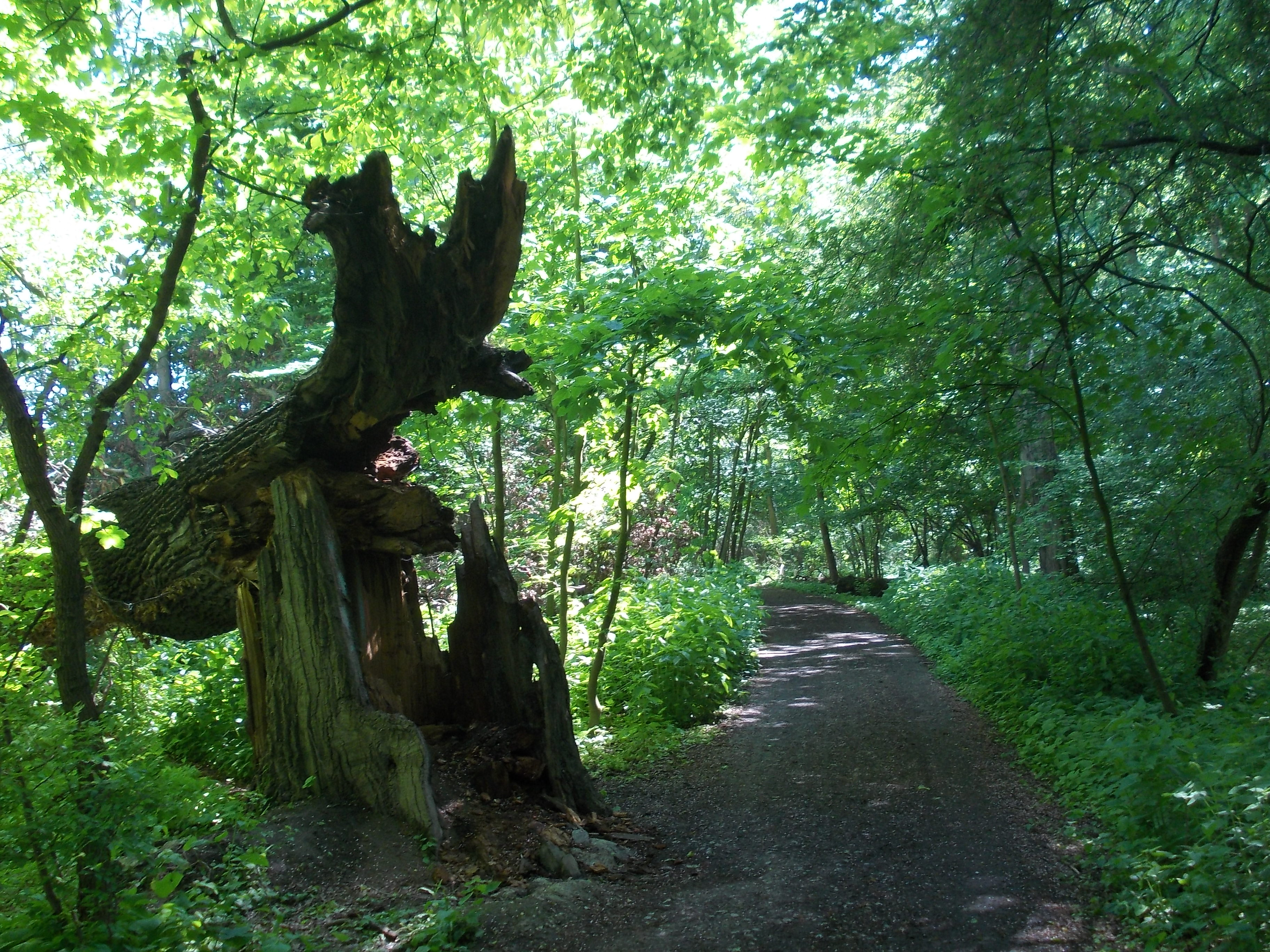 North end of Peissnitz Island (Nature reserve) in Halle (Saale), Saxony-Anhalt